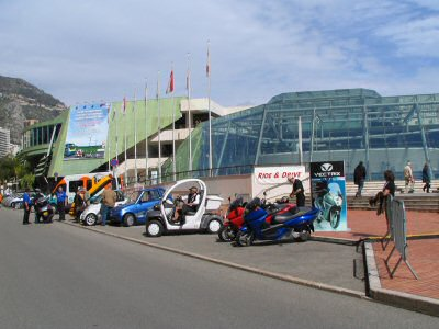 Test driving electric vehicles in front of the Grimaldi forum during the EVER Monaco 2006. The picture is photographed by myself and published on my site The small 400x300 resolution is GFDL available. The original photo is available from me.